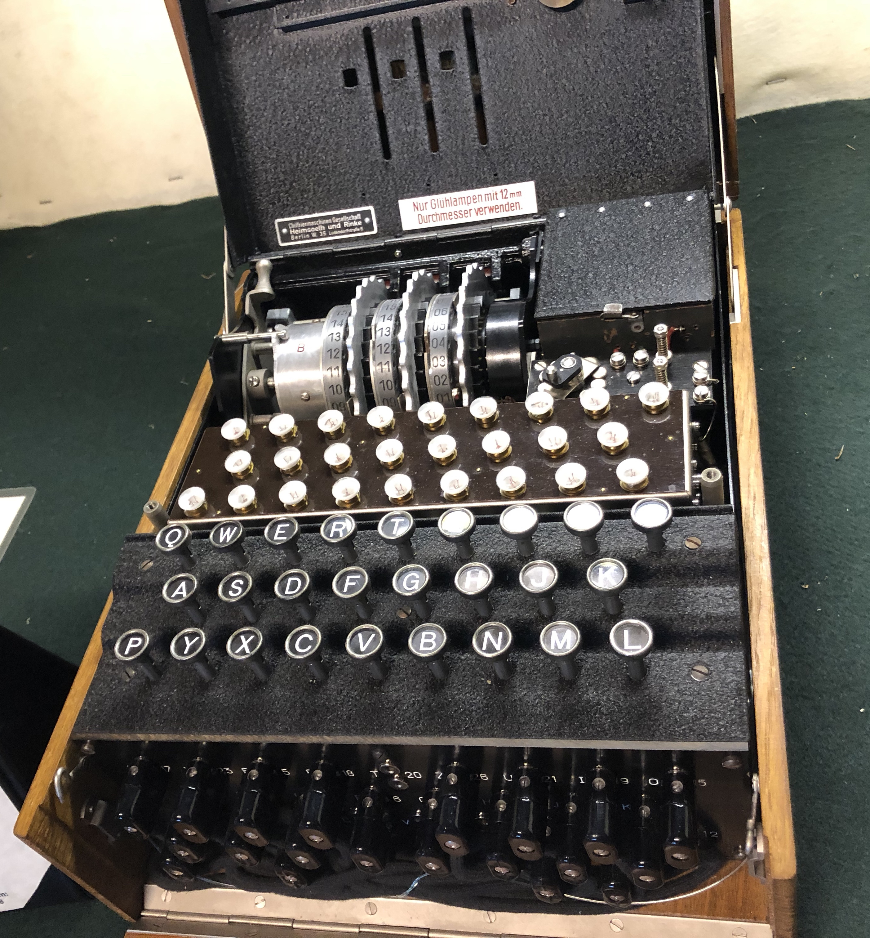 Enigma Machine A16672. Item on display at the MIT Flea Market, held monthly from April to October on the MIT campus.